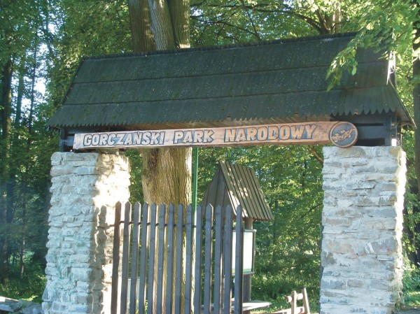 Poręba Wielka